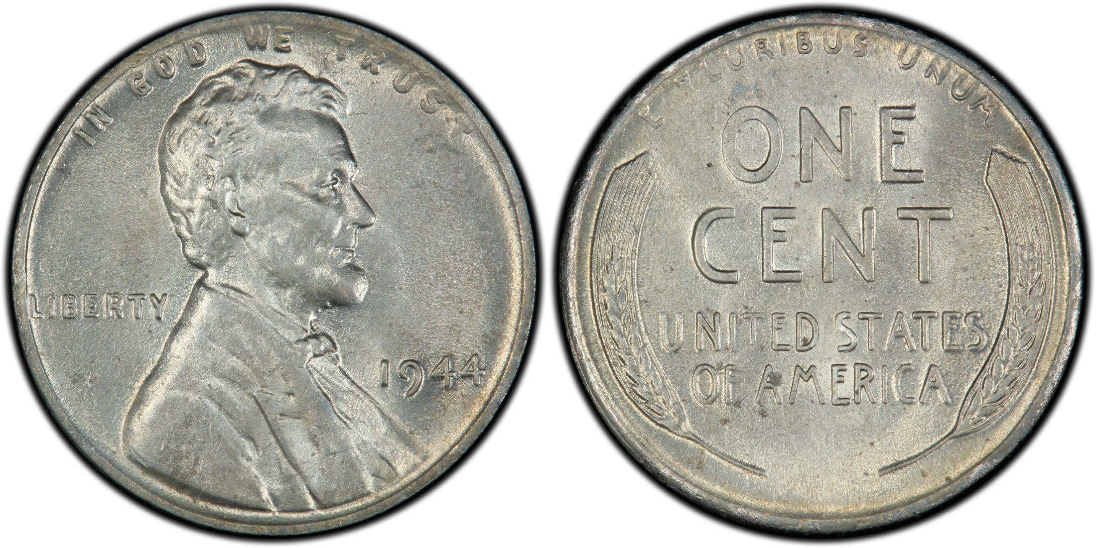 1944 Lincoln cent struck on a 1943 steel planchet.